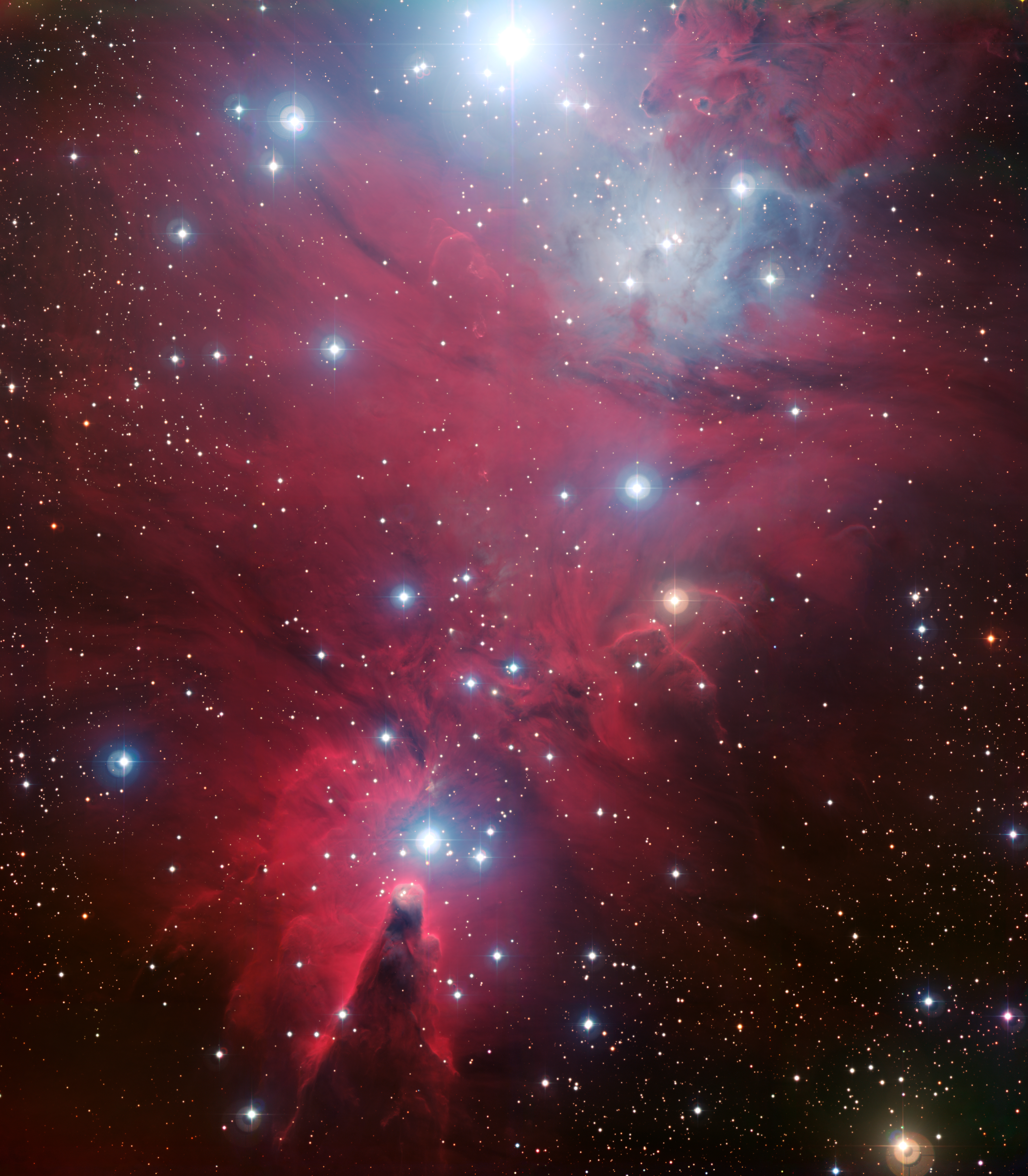 This colour image of the region known as NGC 2264 — an area of sky that includes the sparkling blue baubles of the Christmas Tree star cluster and the Cone Nebula — was created from data taken through four different filters (B, V, R and H-alpha) with the Wide Field Imager at ESO's La Silla Observatory, 2400 m high in the Atacama Desert of Chile in the foothills of the Andes. The image shows a region of space about 30 light-years across.